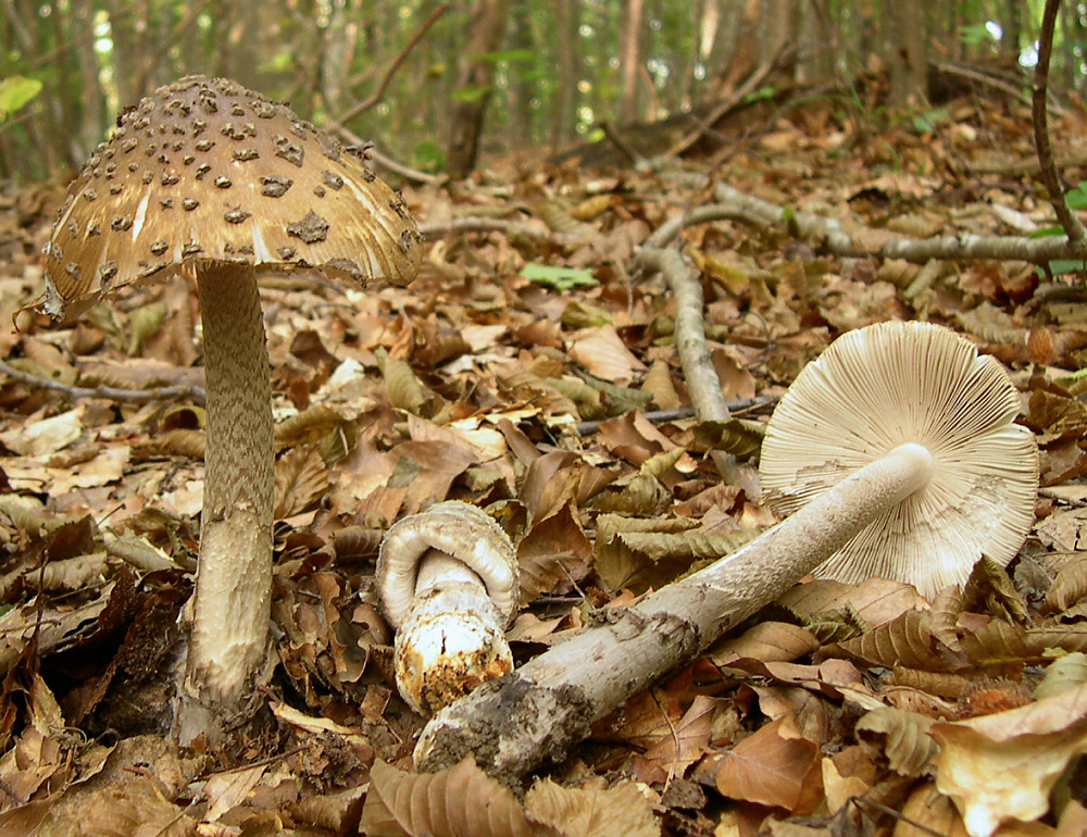 Amanita ceciliae (Berk. & Broome) Bas 1983